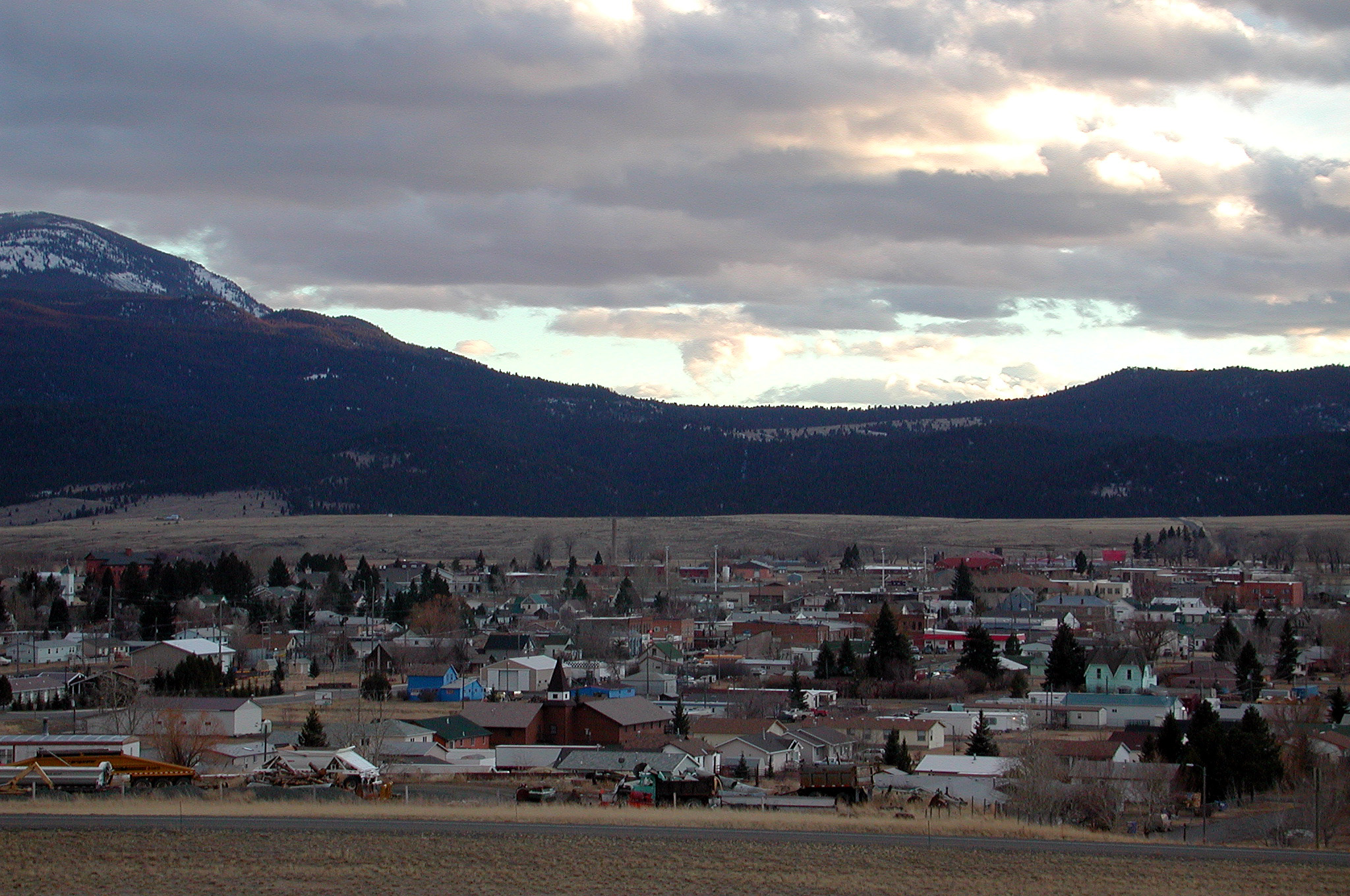 Boulder, Montana, as seen from near Interstate 15, looking southeast